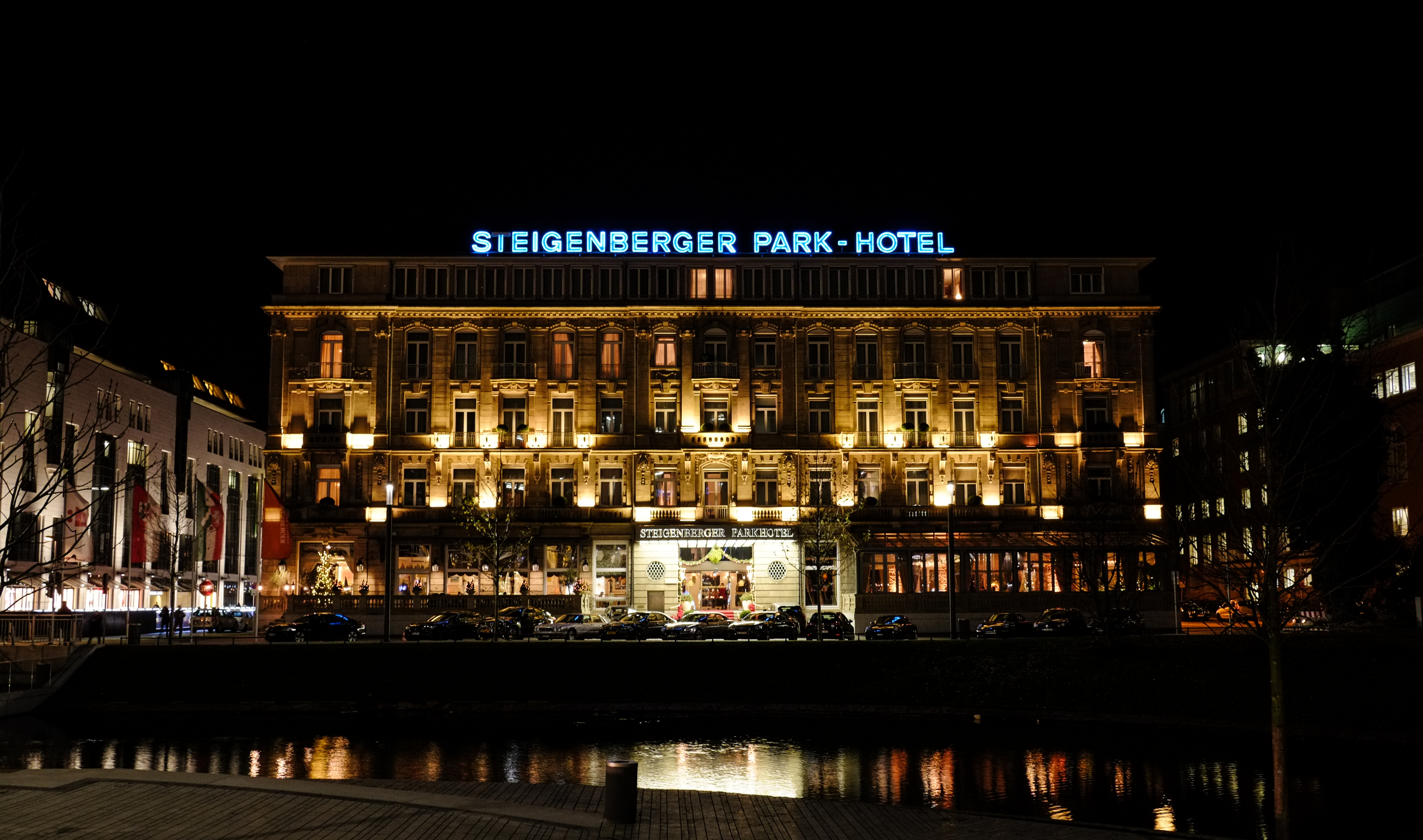 Steigenberger Park Hotel, Dusseldorf